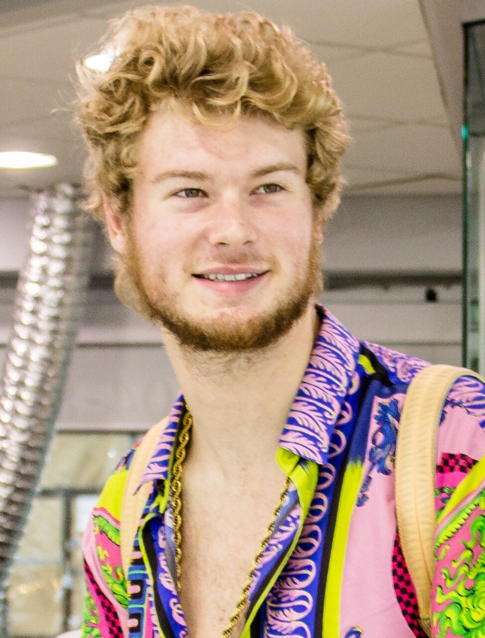 Yung Gravy Icebox 2019